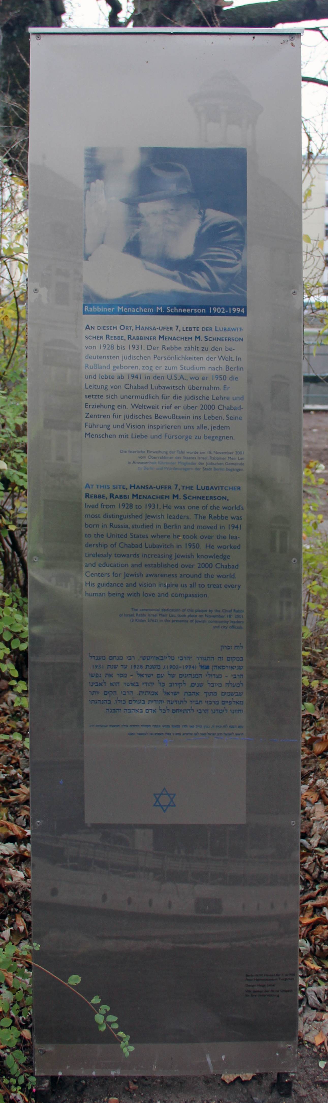 Memorial plaque, Menachem Mendel Schneerson, Hansa-Ufer 7, Berlin-Moabit, Deutschland